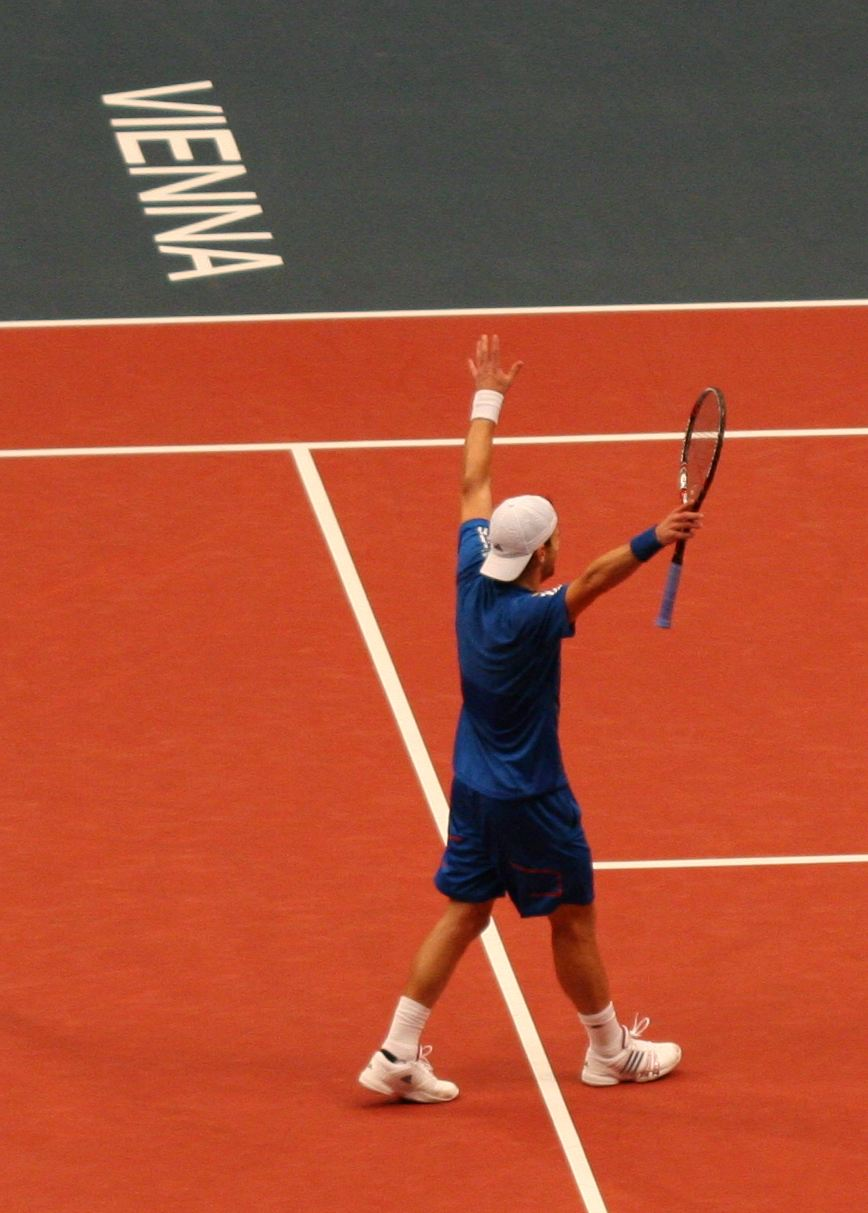 Jürgen Melzer in Wiener Stadthalle in the final 2010 right after wining the turnament